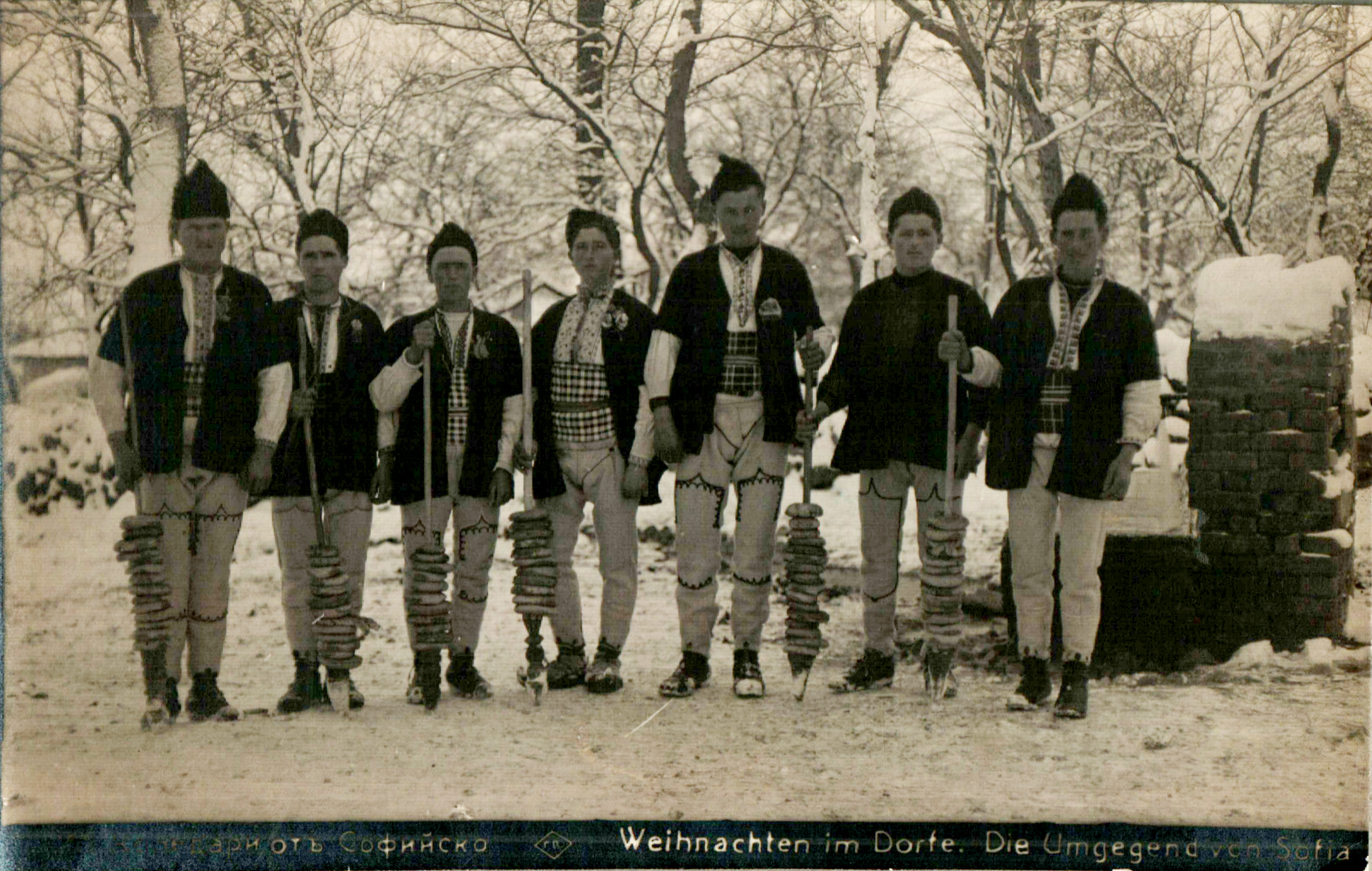 Koledari from Sofia region, Bulgaria.